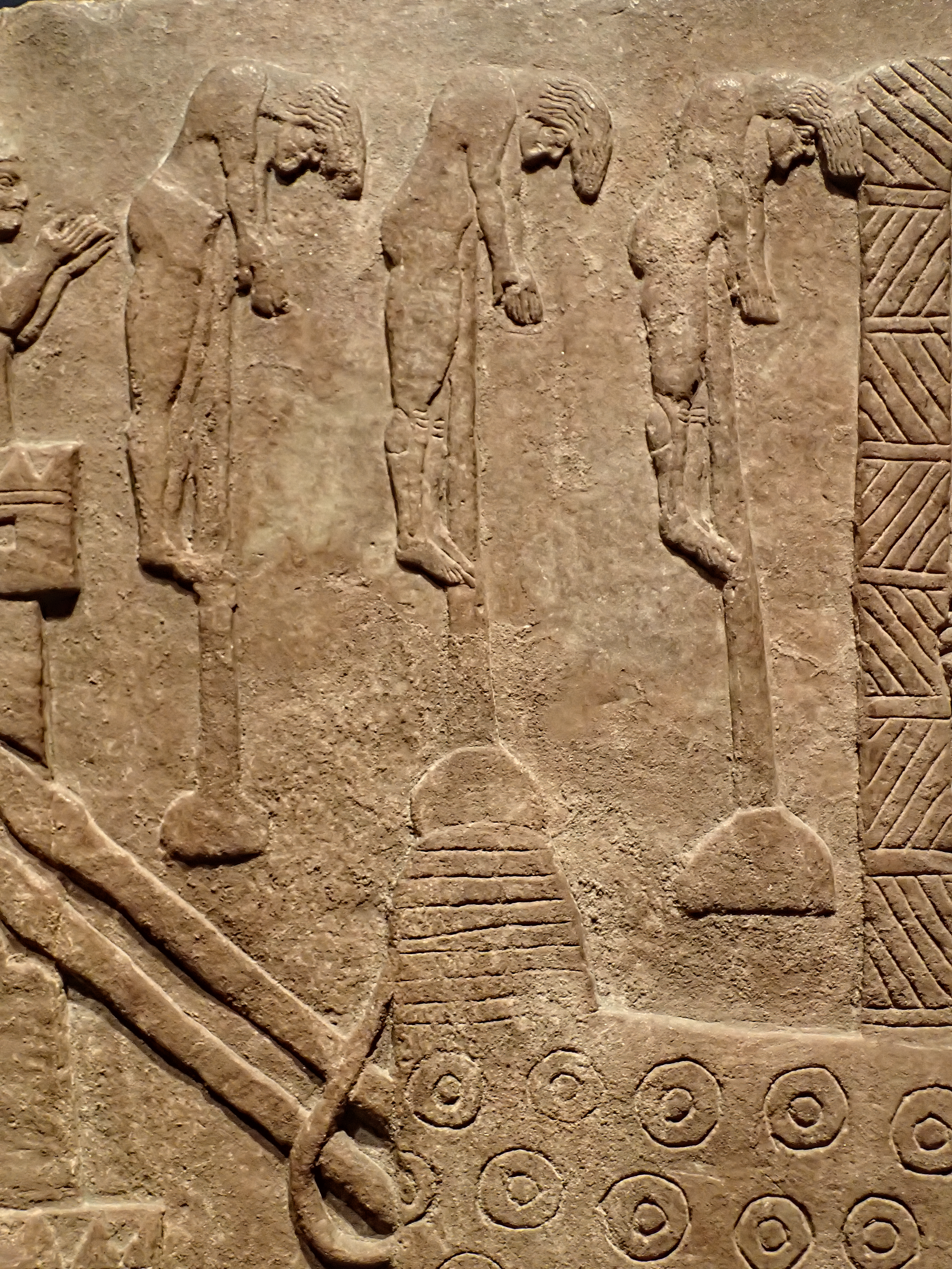 Impaled victims in Assyrian relief of attack on an enemy town during the reign of Tiglath-Pileser III 720-737 BCE from his palace at Kalhu (Nimrud), gypsum, now in the collections of the British Museum on loan to the Getty Villa